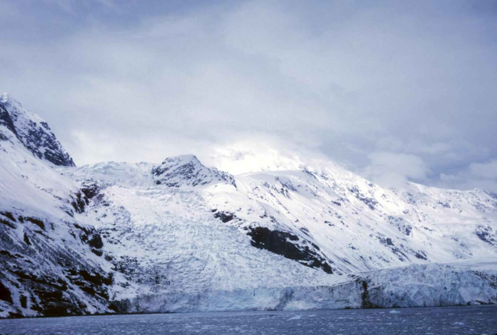 Image title: Tidewater glacier in prince william sound Image from Public domain images website